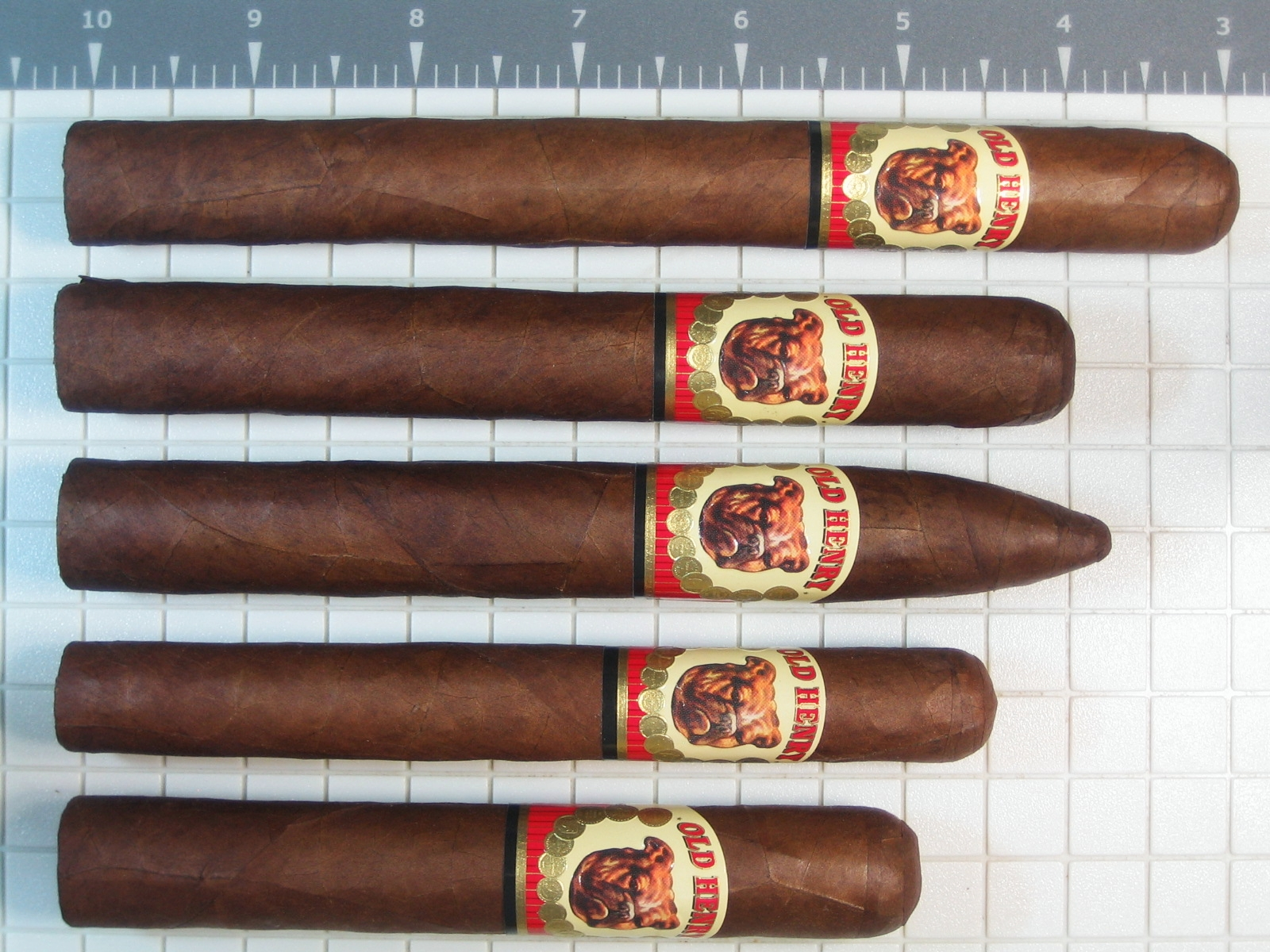 Old Henry is a Don Pepin Garcia cigar, made at the TACUBA factory in Nicaragua exclusively for Holts. Rufus Shaw